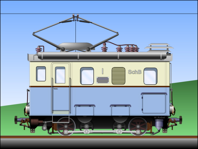 HGe 2/2 Nr1